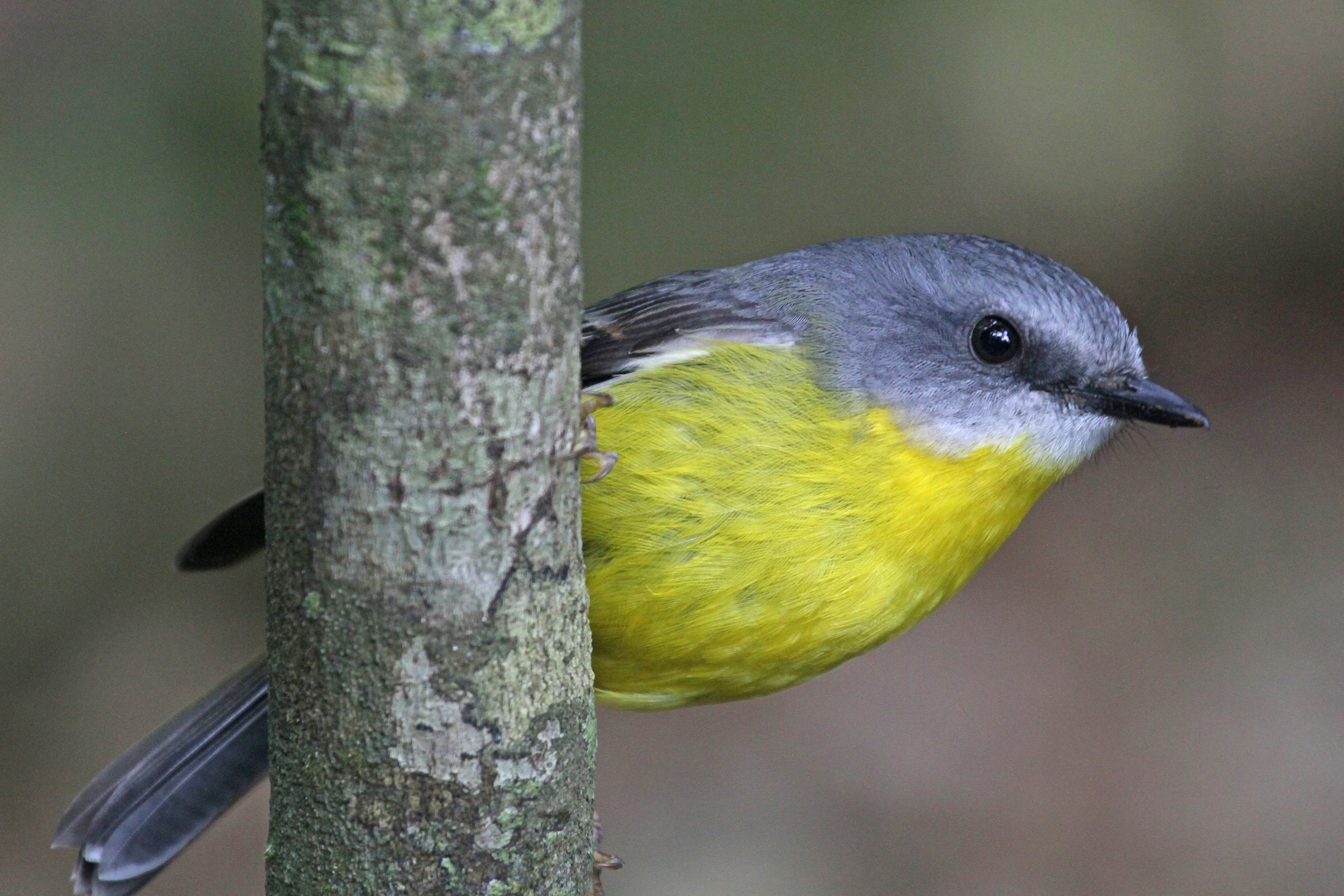 photo of Eastern Yellow Robin